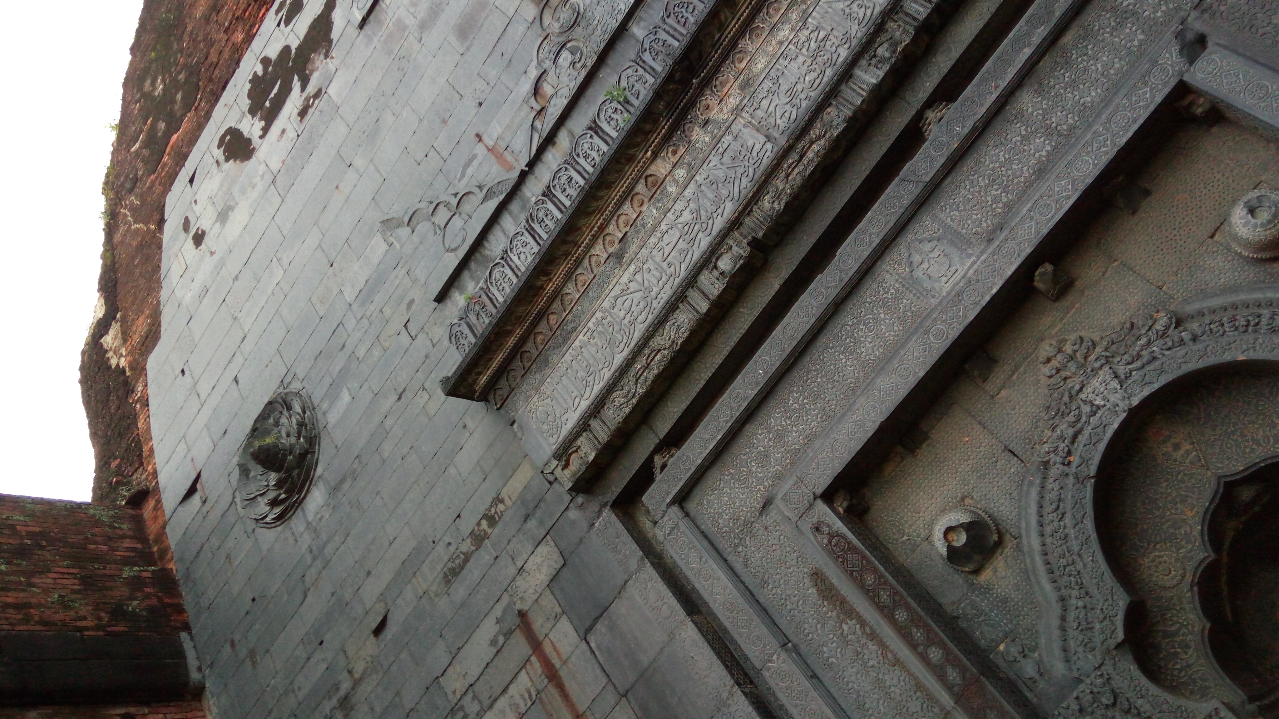 Arabic inscription is written on the top.These were inscribed later by the Muslim rulers after capturing the Hindu temple. Claimed to be inscribed on "Philosophers stone" by locals.